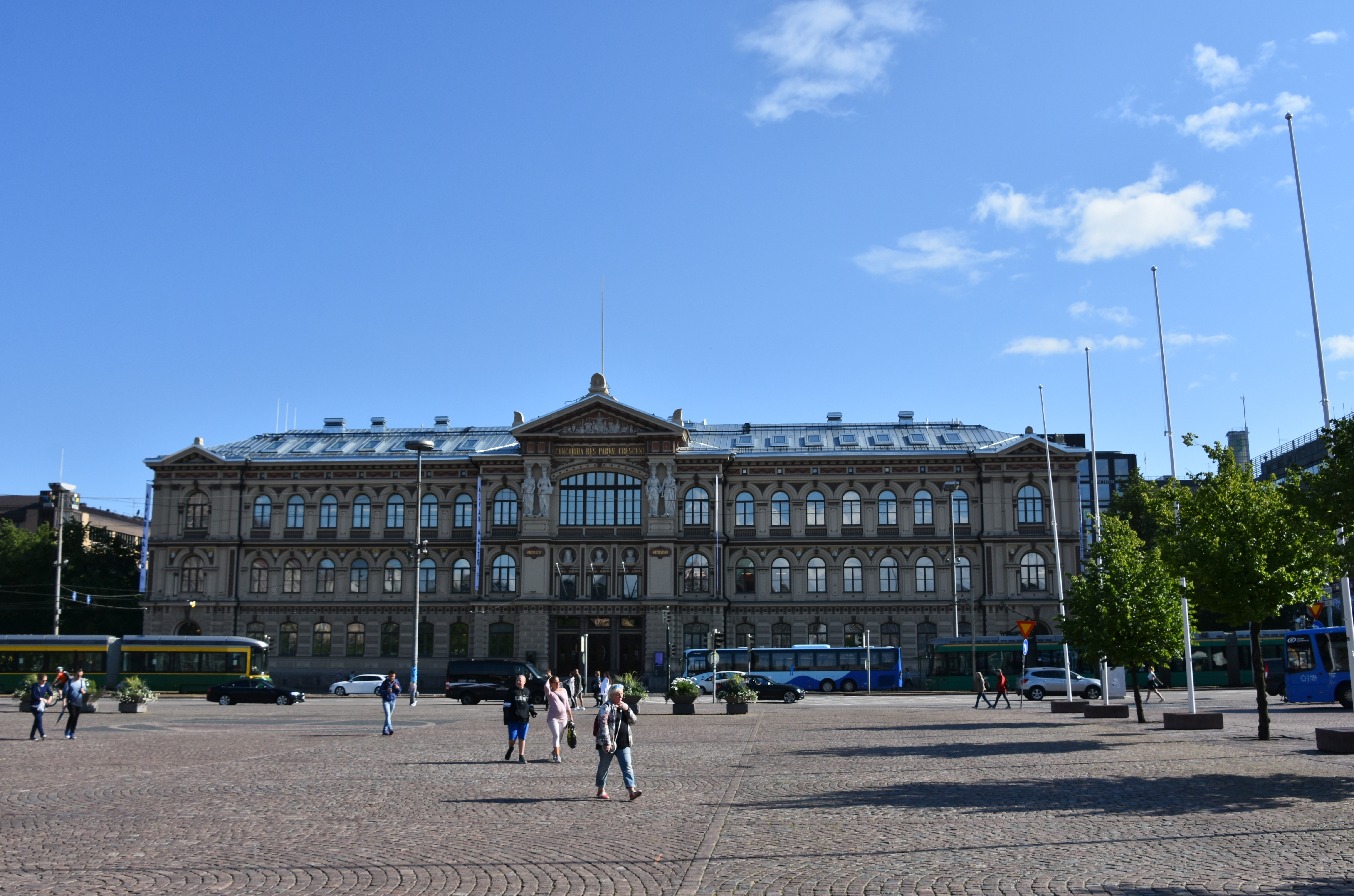 National Theater, Helsinki (2)